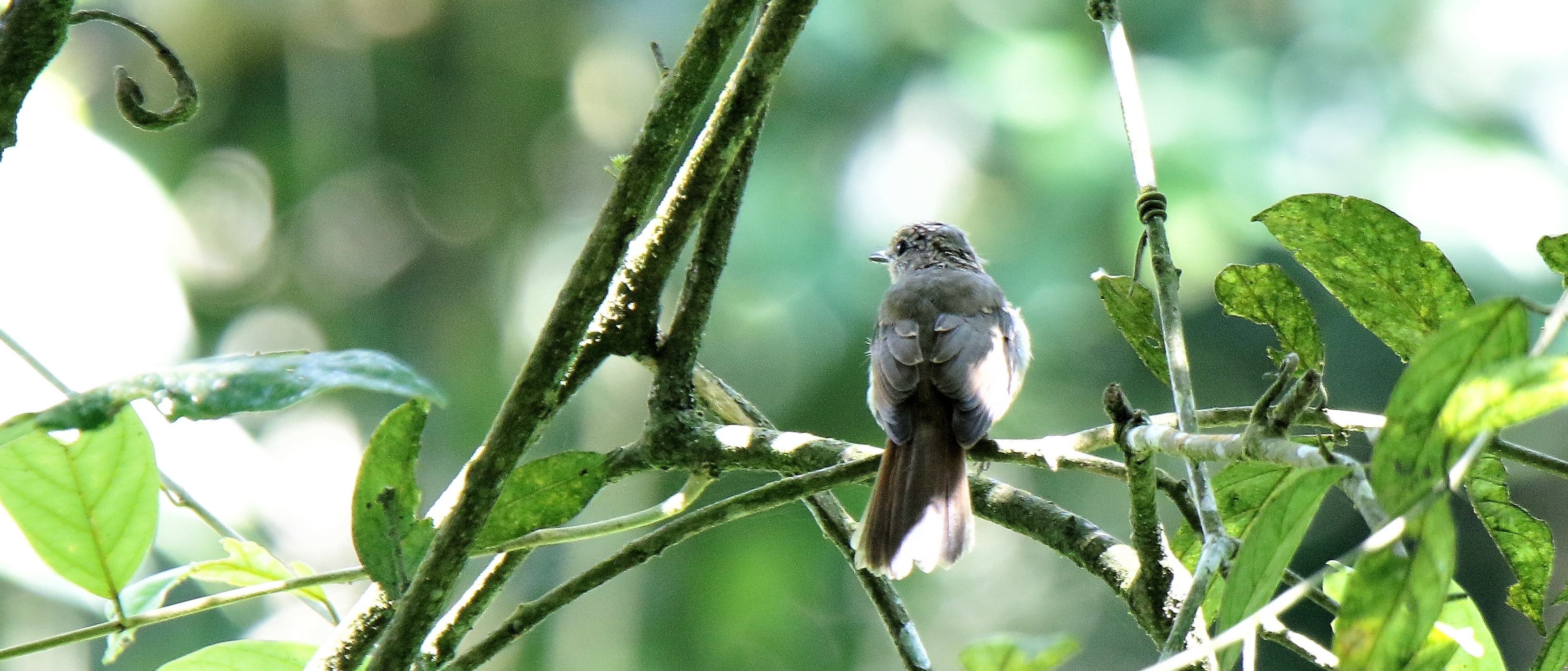 Pale blue flycatcher (femal)